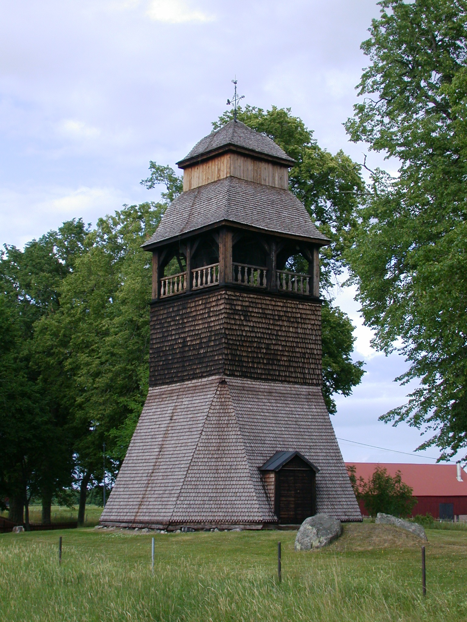 The bell tower at Harbo church, Heby, Diocese of Uppsala, Sweden